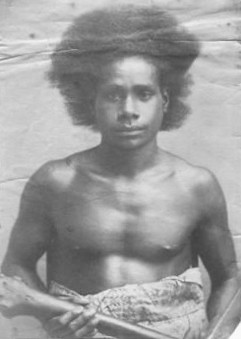 Archival photo of indigenous young Fijian man